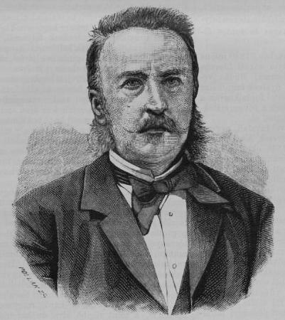 Portrait of Béla Bánffy